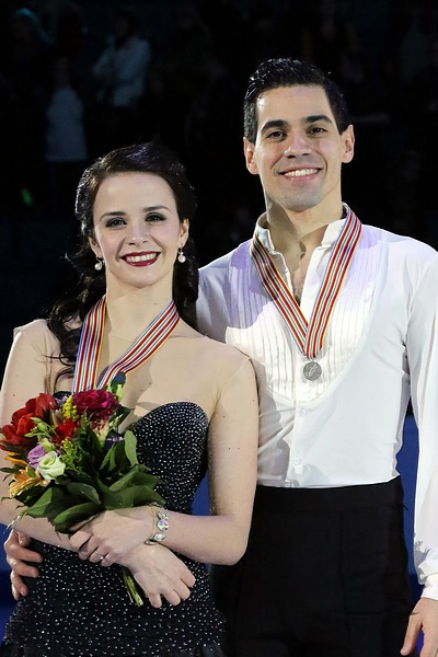 Anna Cappellini and Luca Lanotte at the 2016 European Championships - Awarding ceremony